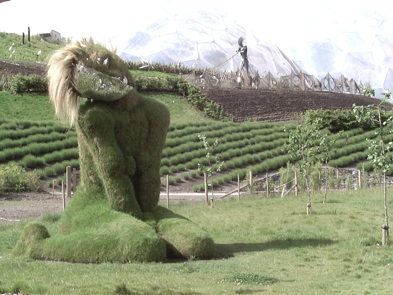 "Lawn sculpture" of a woman, framed against the Eden Project biomes.